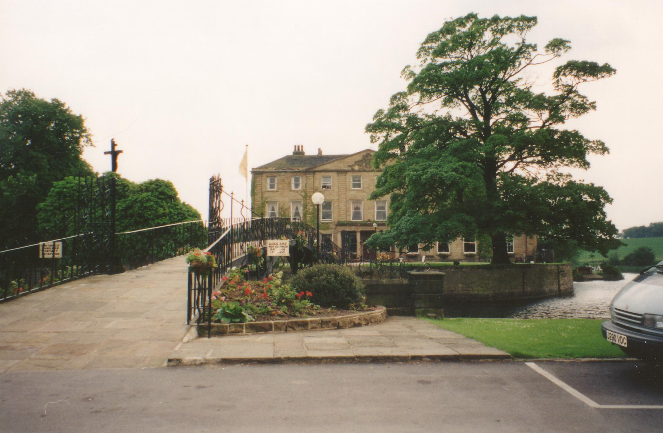 Taken by Keith Booth, 1993